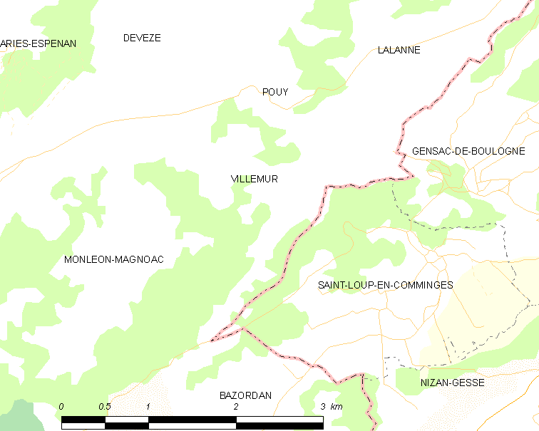 Map of French municipality